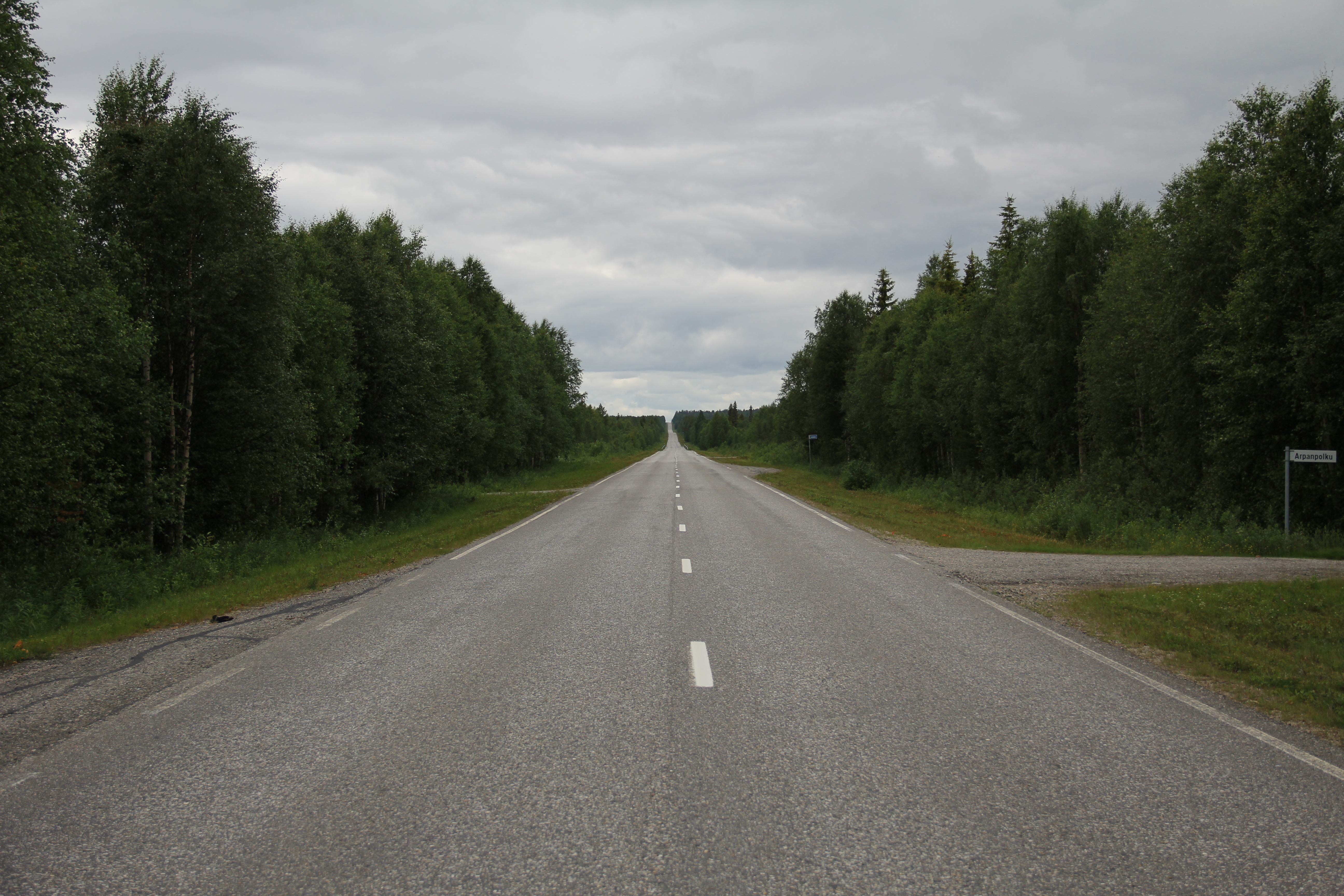 National road 965, Savukoski, Finland.